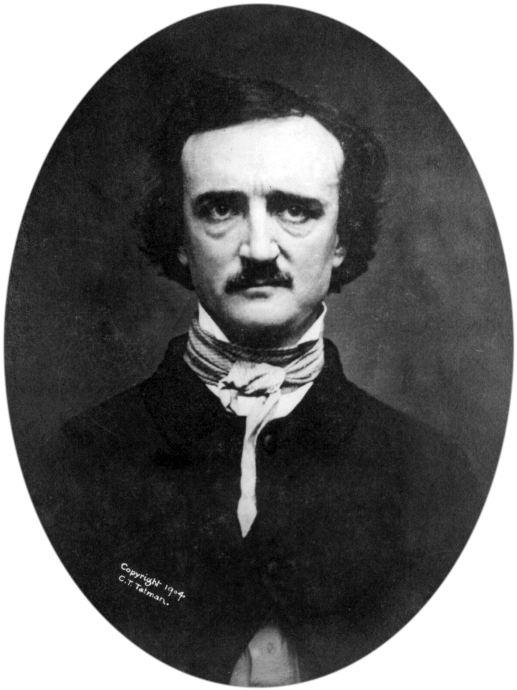 Somewhat retouched and with transparent background. Original daguerreotype taken by Edwin H. Manchester, photographer employed by the Masury & Hartshorn firm (second floor of 25 Westminster Street) of Providence, Rhode Island, on the morning of November 9th, 1848.